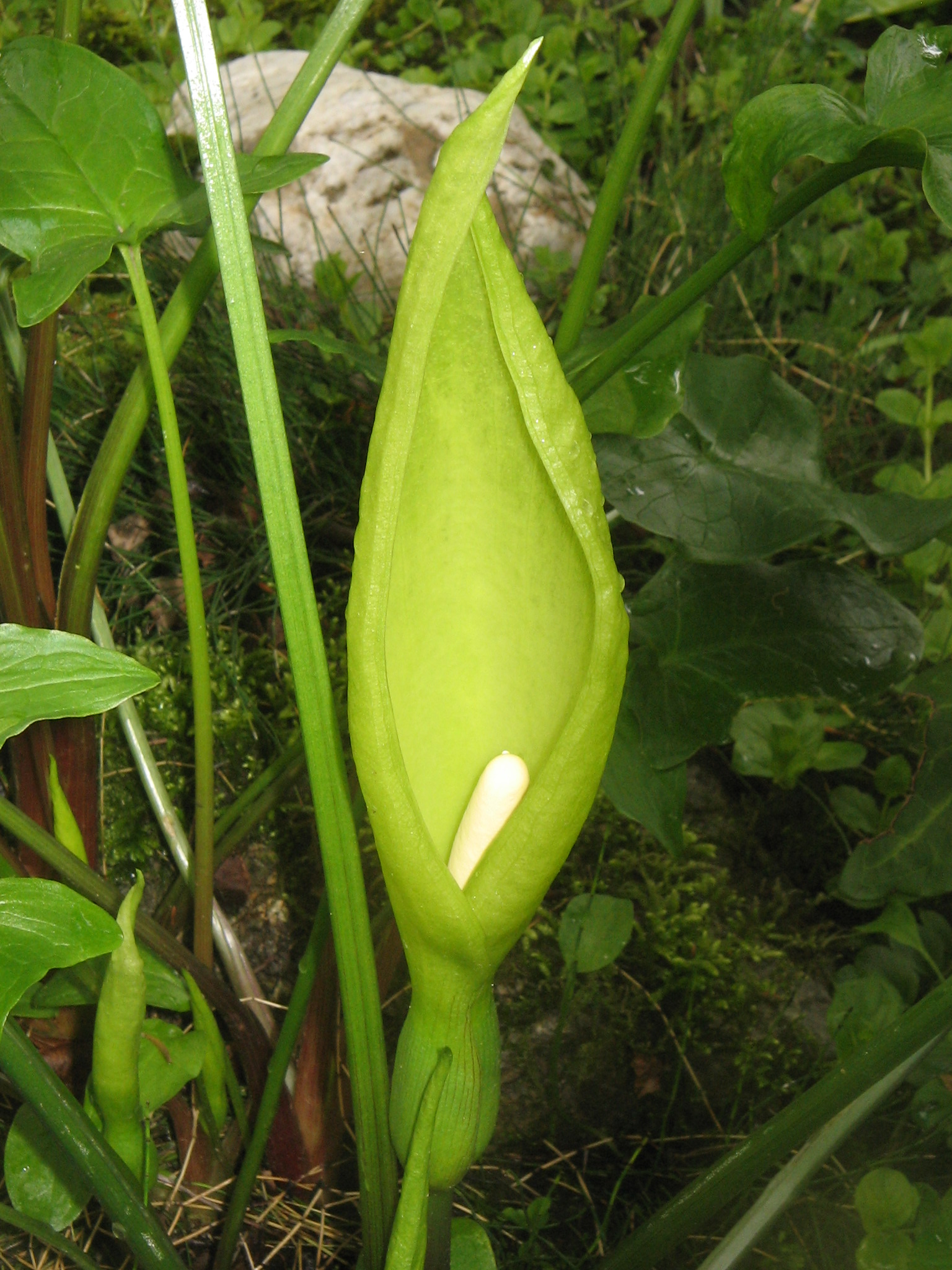 Arum italicum inflorescence